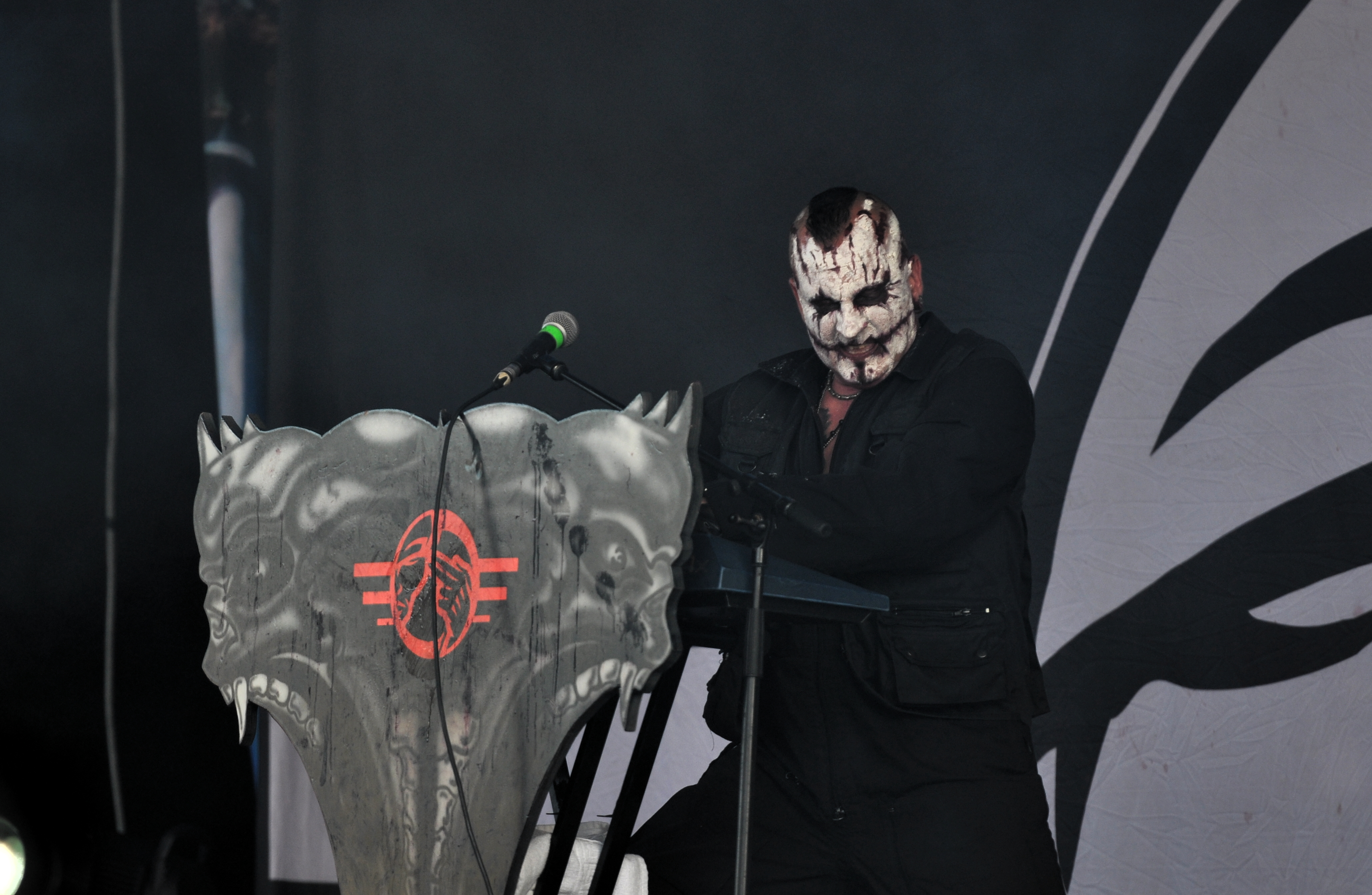 Mike Johnson of Agonoize at Amphi Festival 2013, Cologne, Germany